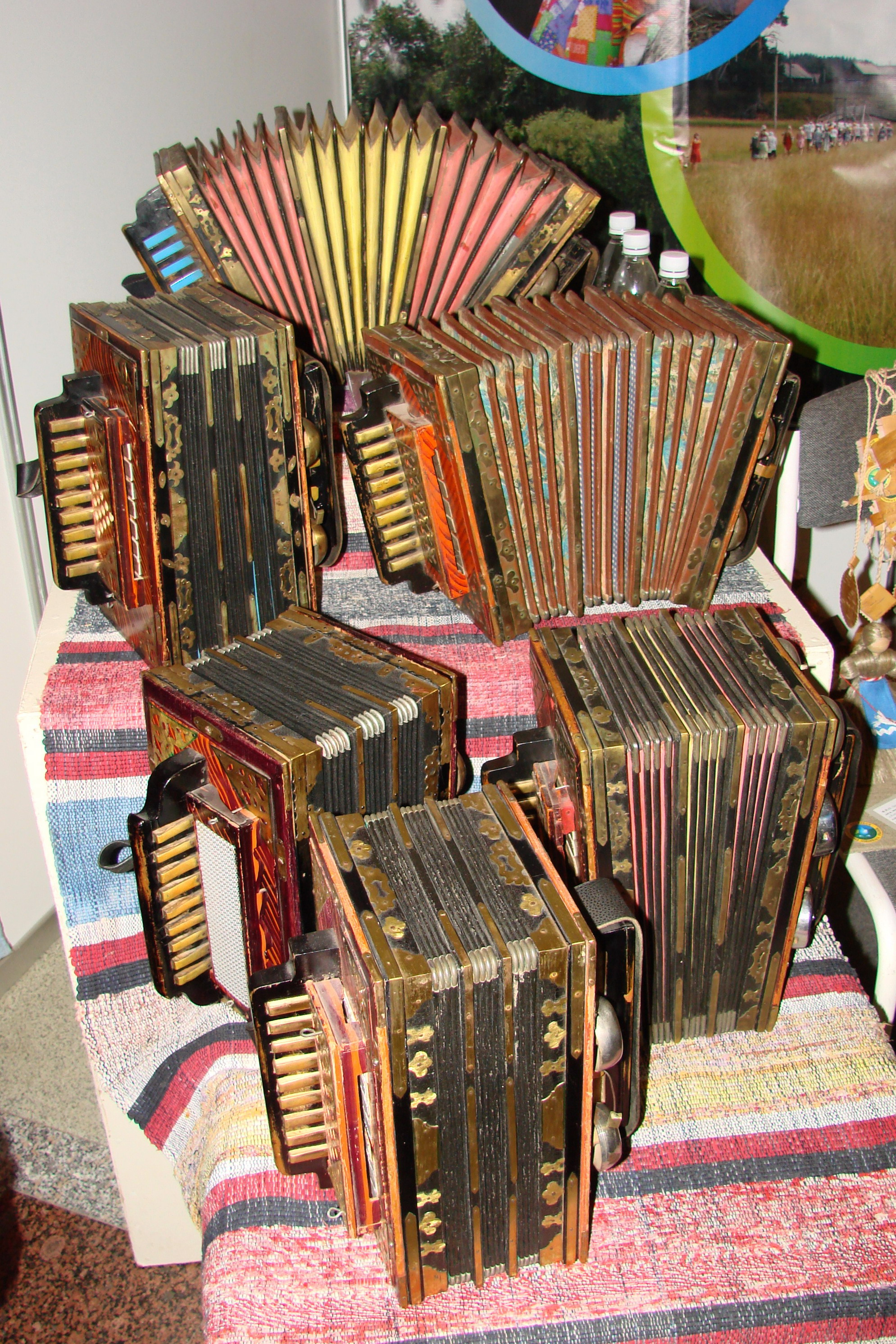 Russia, Vologda, Exhibition «Gates to the North», Garmon-«Talianka»